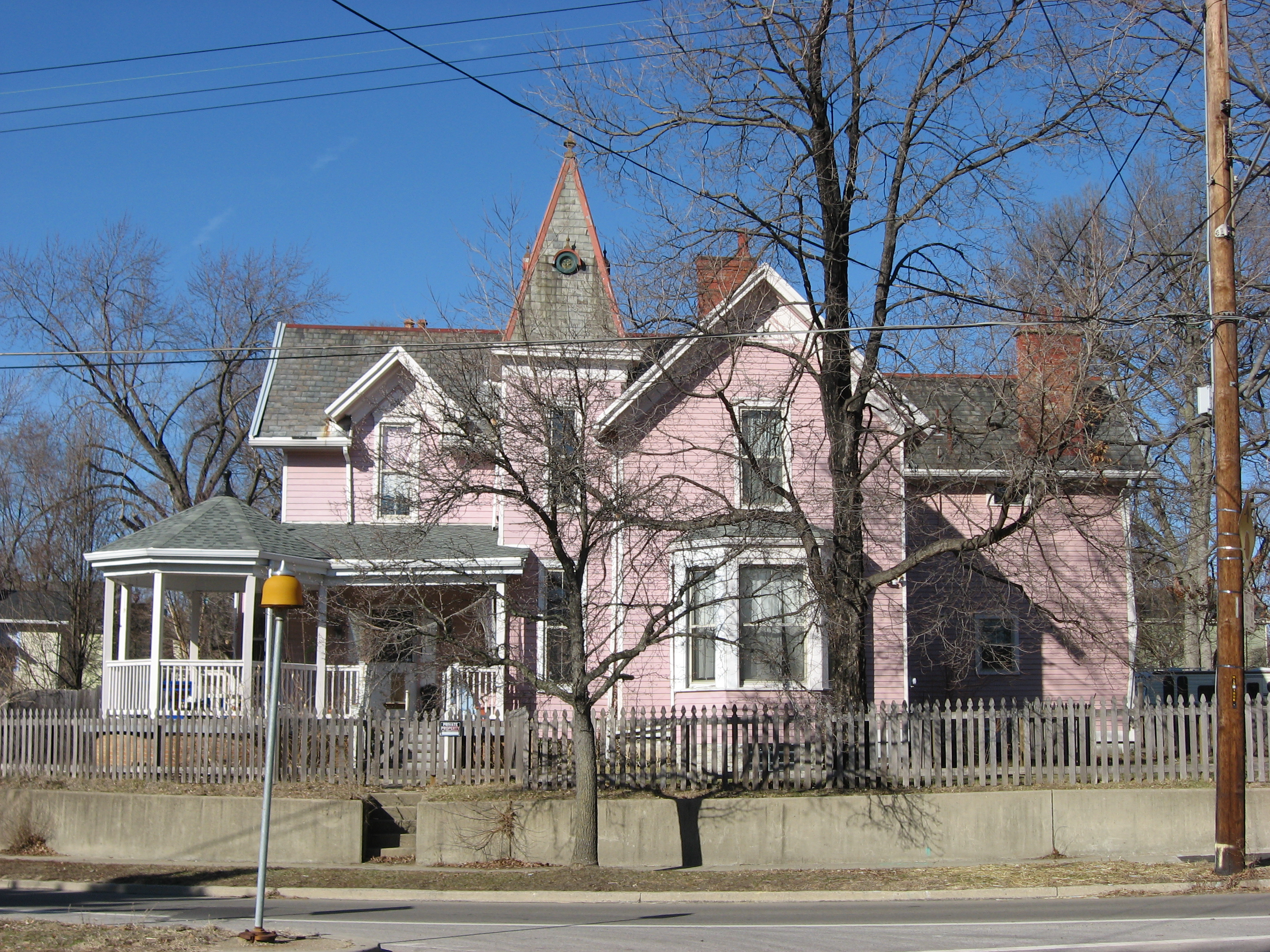 Front of the Samuel Hannaford House, located at 768 Derby Avenue in the Winton Place neighborhood of Cincinnati, Ohio, United States. Built in 1865 according to a design by its owner, it is listed on the National Register of Historic Places.